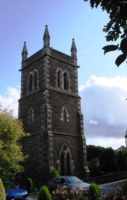 St George the Martyr church tower, Truro Tower of St George the Martyr. This is an Anglican church - Grade 2 listed. It sits near the railway viaduct which traverses the valley in which Truro sits.